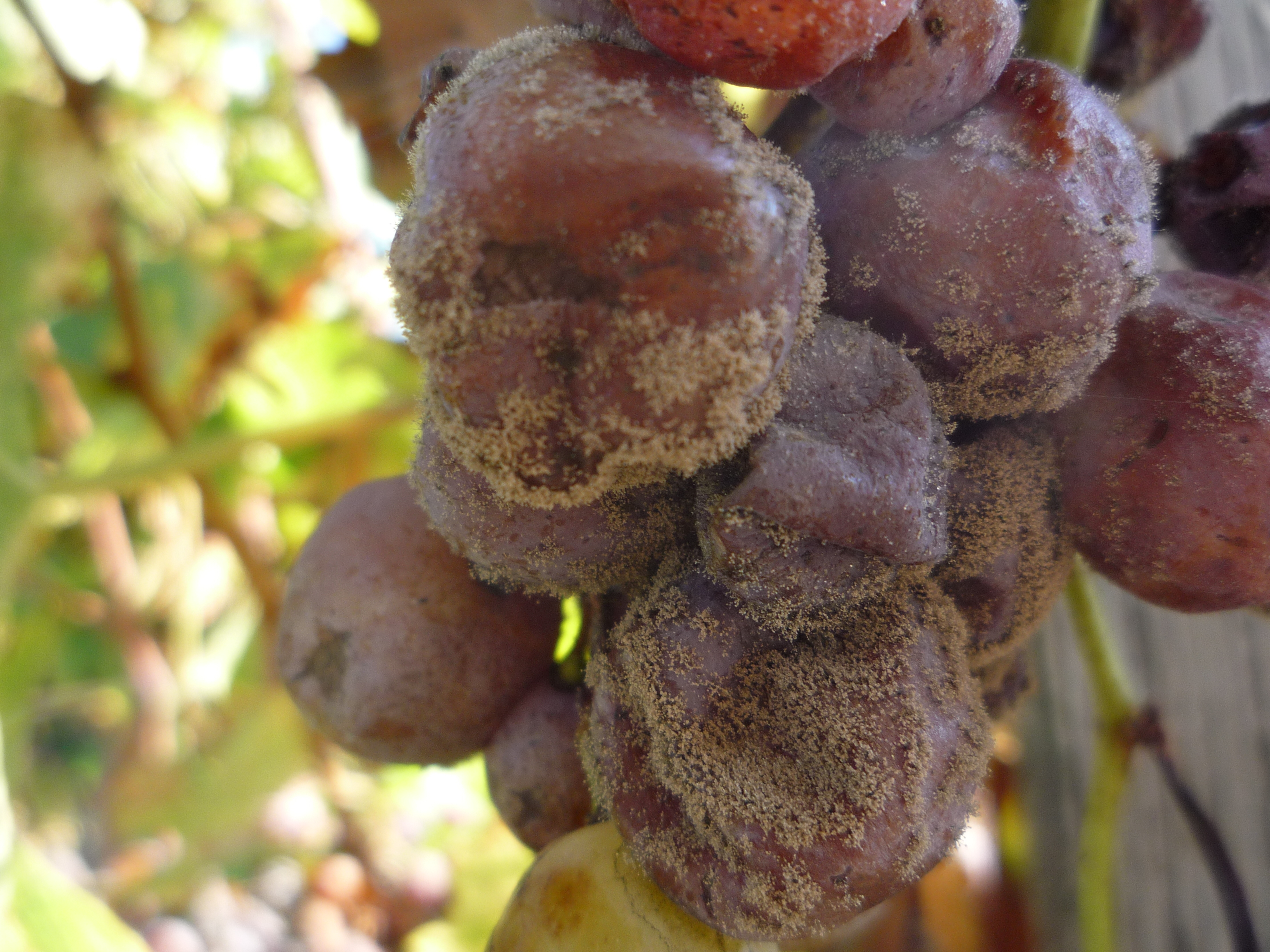 Semillon grapes in the Sauternes region near Bordeaux, South-West France, showing prized Noble Rot (Botrytis Cinerea).